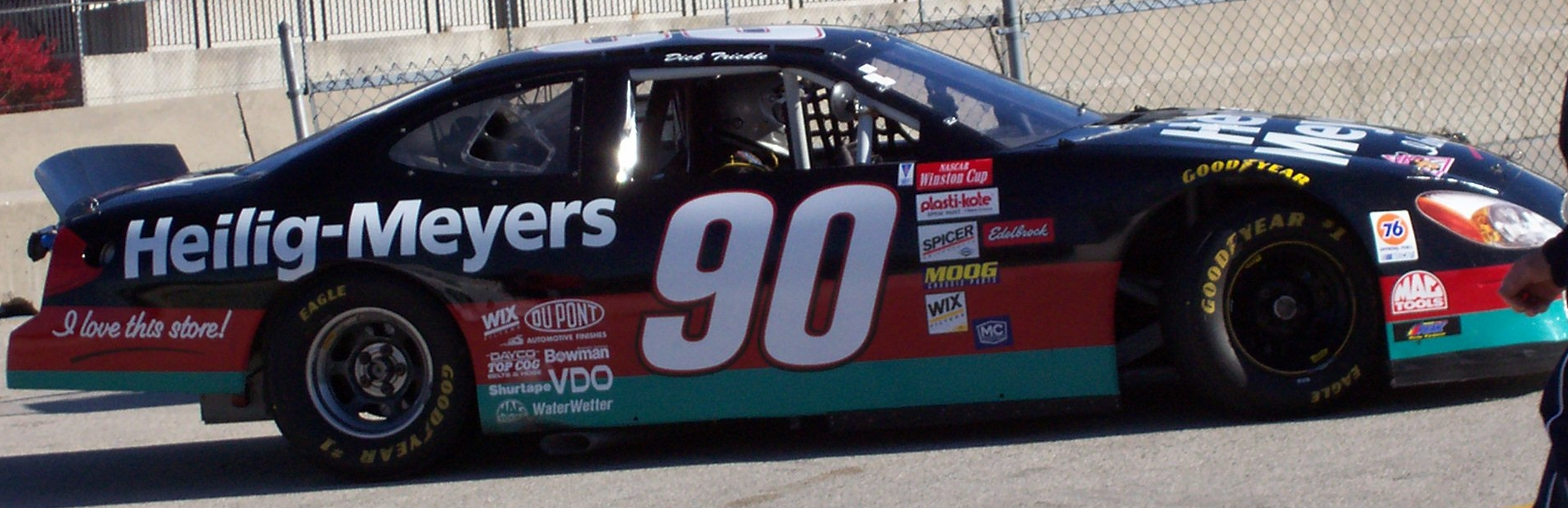 A former Dick Trickle NASCAR Winston Cup car the pits at Road America